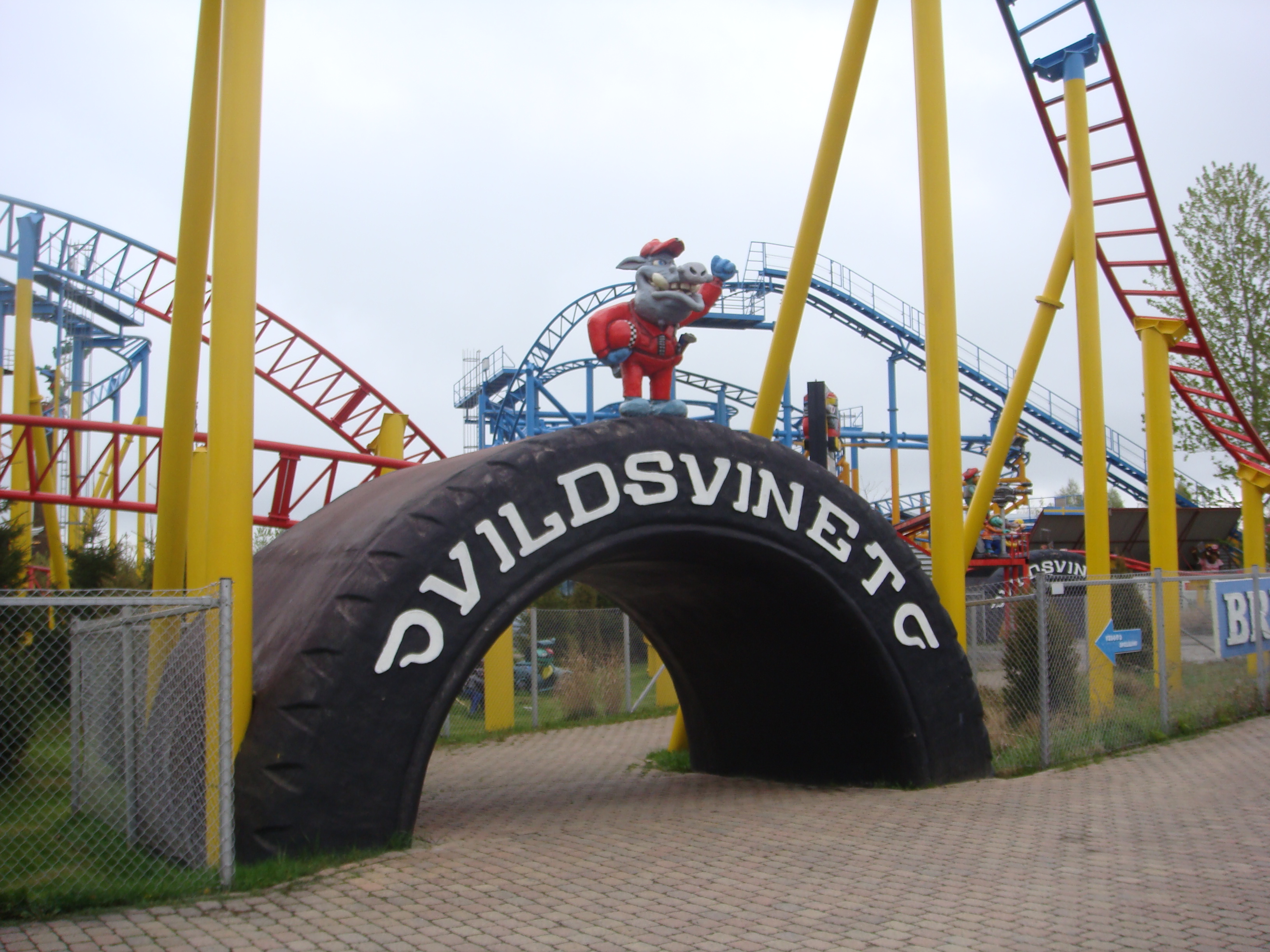 Roller Coaster Vildsvinet at BonBon-Land, Denmark